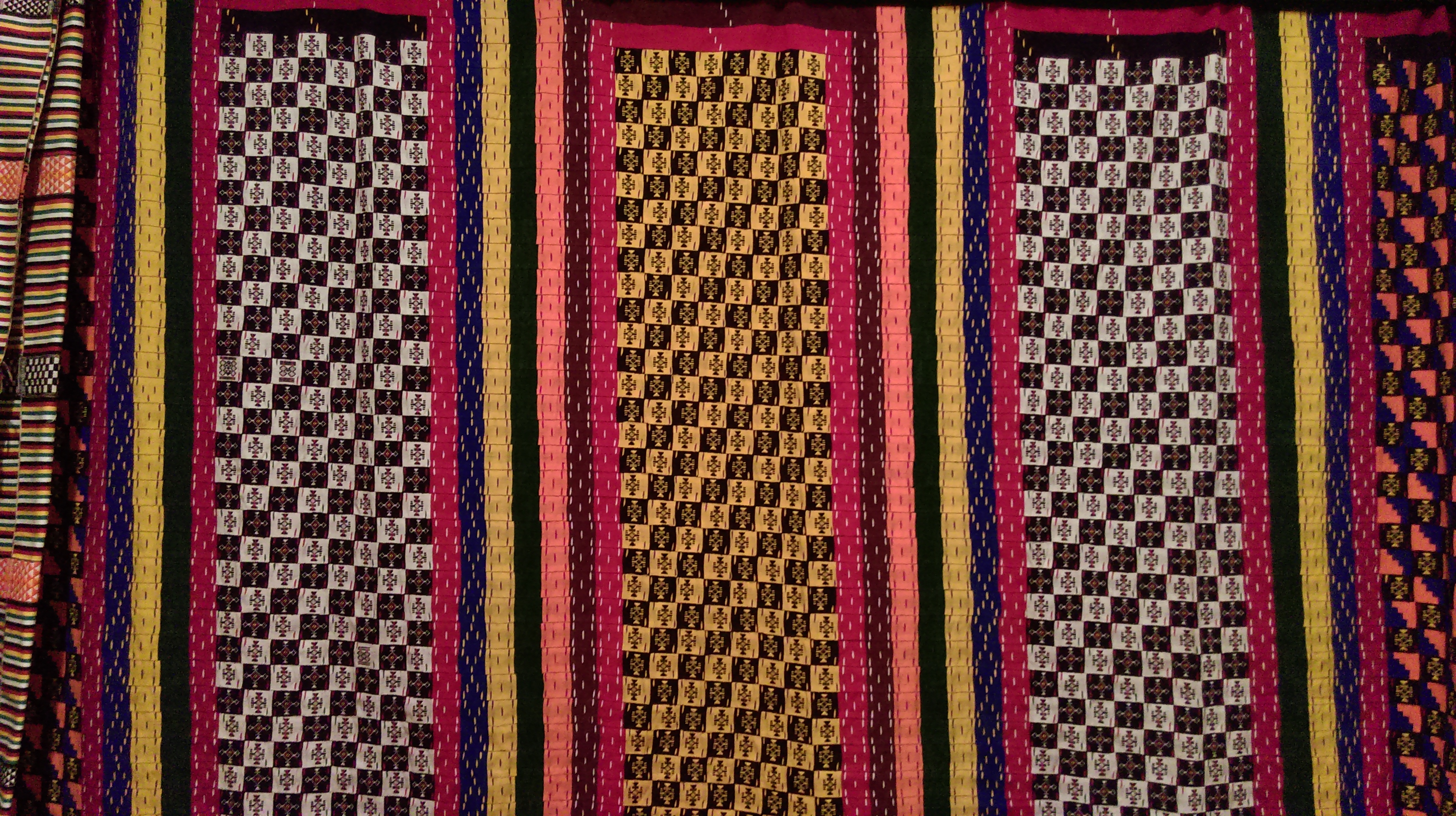 National Museum of Mali, bamako, traditional patterns This is an image of Cultural Fashion or Adornment from Mali